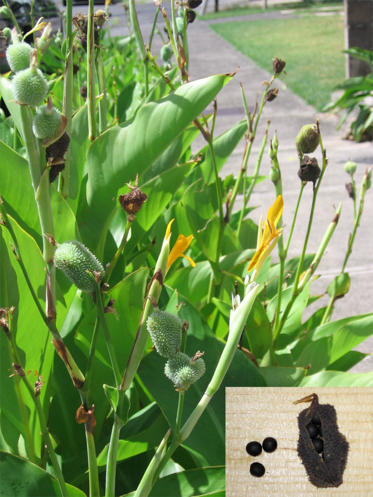 Self made image composed of two self-made photographs, by Robert Uyeyama